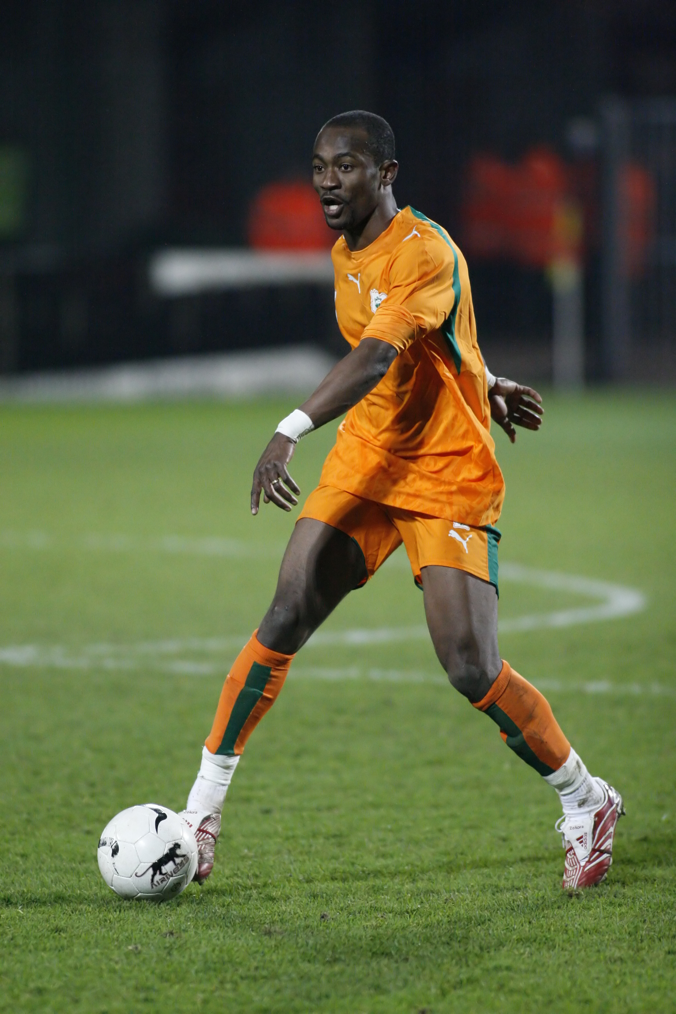 Ivorian player Didier Zokora during match Guinea vs. Côte d'Ivoire at Stade Robert Diochon, Rouen, France.